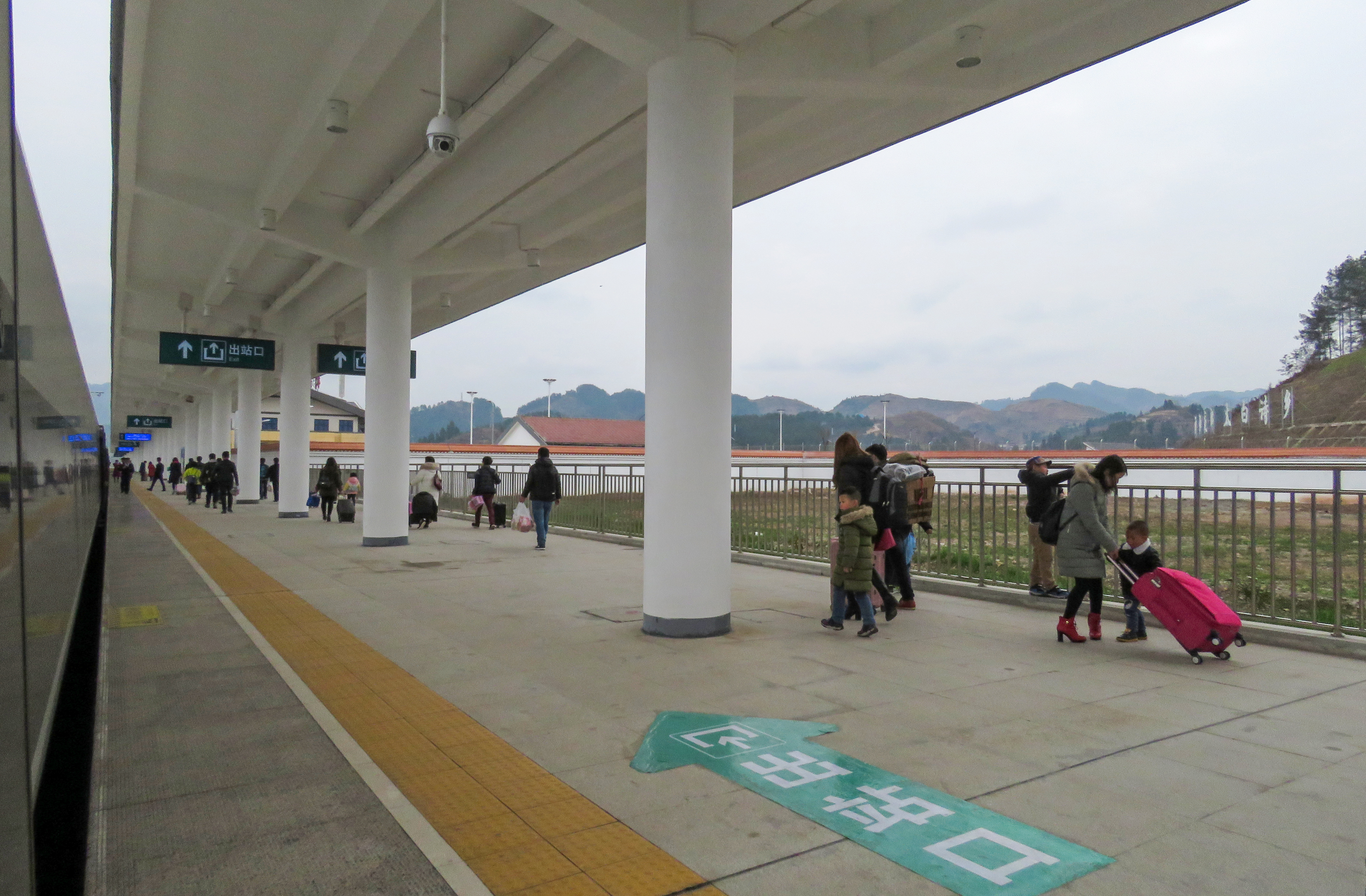 Whoah! Is the traffic so heavy in Yelang?! This station, located in Yelang town, ought to be called Yelangzhen Station - it's really far from central Tongzi.